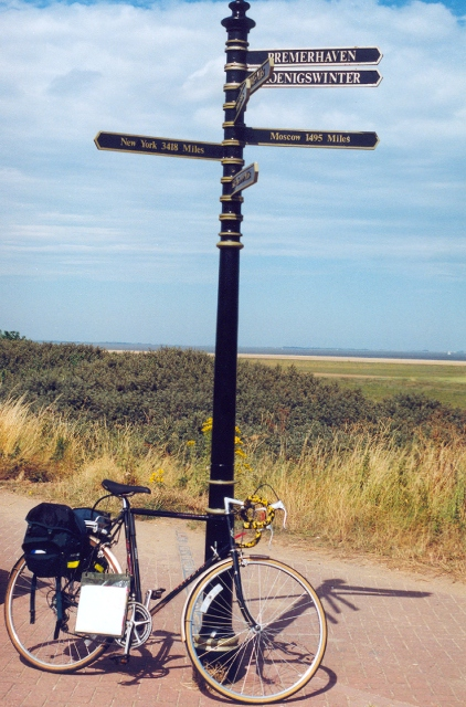 Meridian marker at Cleethorpes.